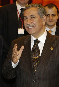 Turkish politician, ANKARA. With Chairman of the Grand National Assembly (parliament) of Turkey Bülent Arınç (right). Photo by the Presidential Press Service